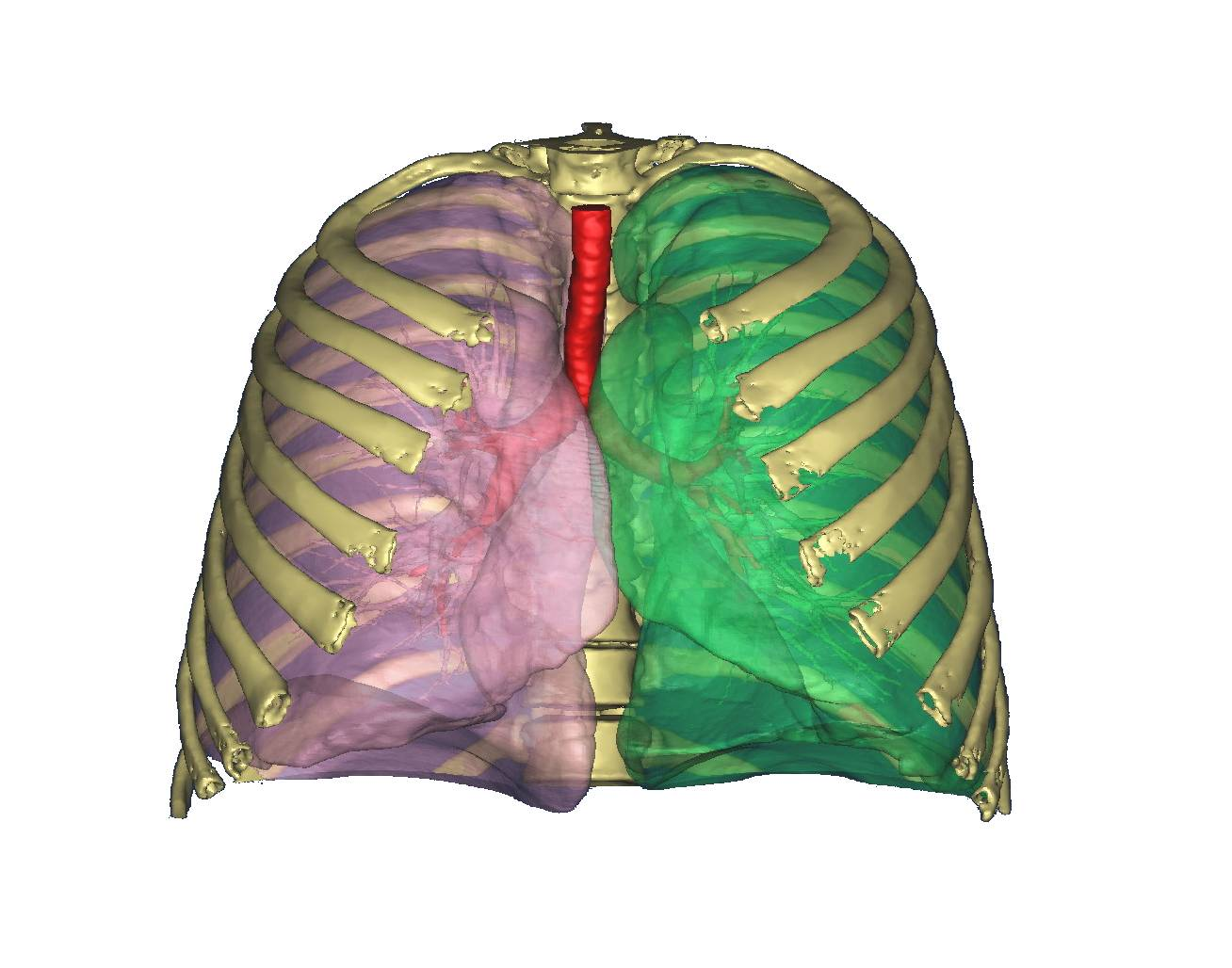 3D model (and cutaway of the lungs in Mimics software.